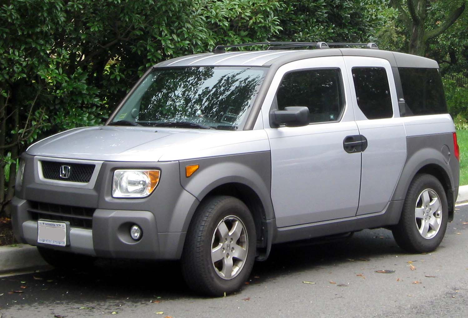 2003-2006 Honda Element photographed in Washington, D.C., USA.